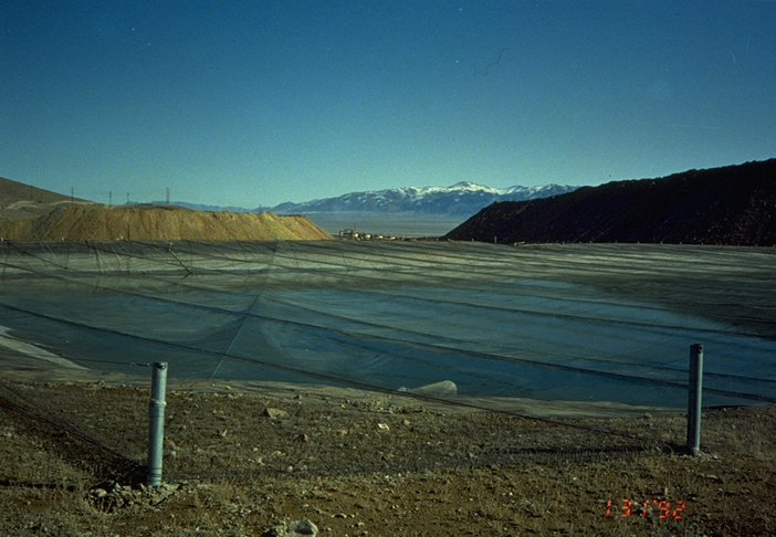 Netted solution pond next to cyanide heap leaching of gold ore near Elko, Nevada.